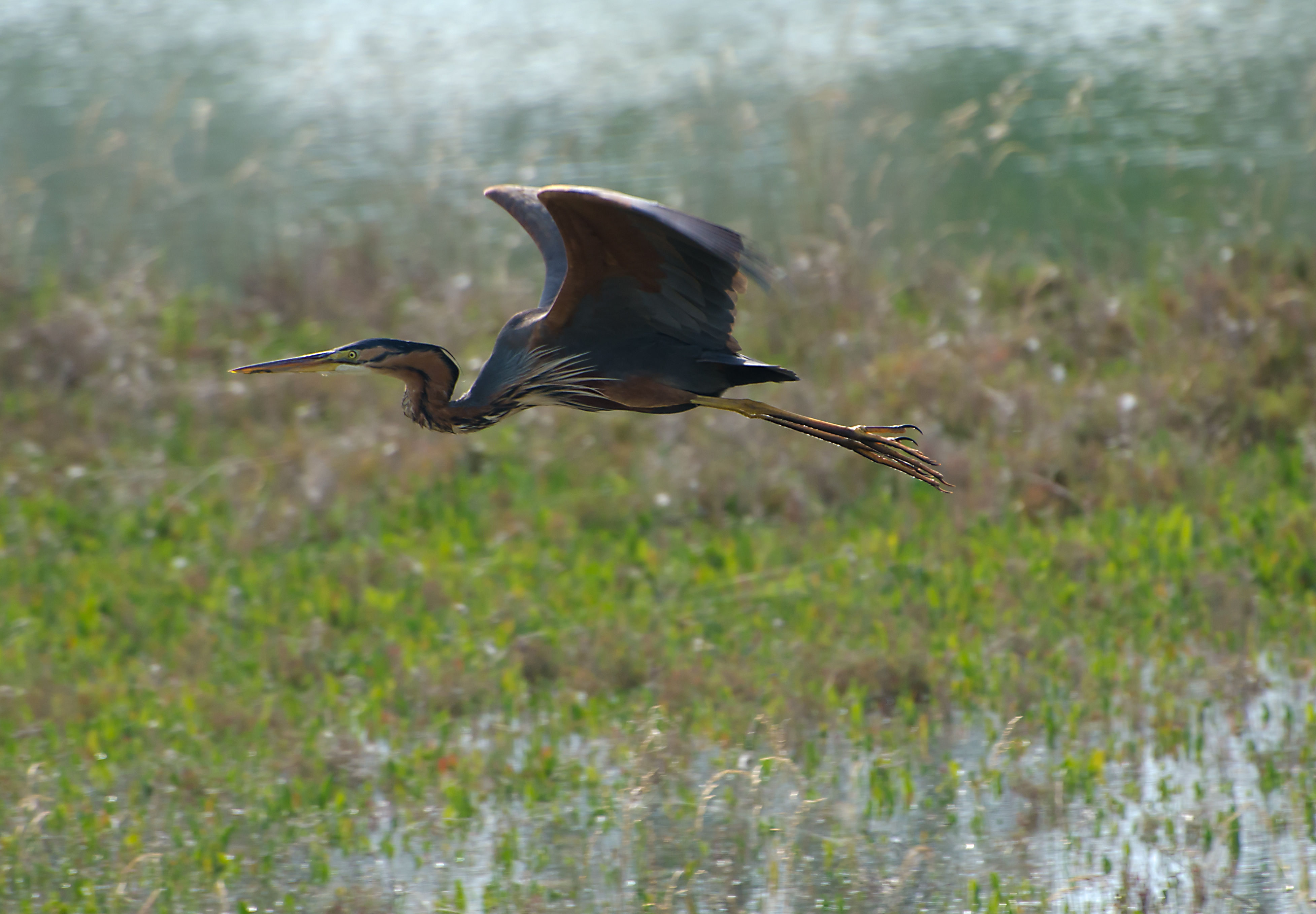 Purple Heron, Laguna di Venezia, Italy